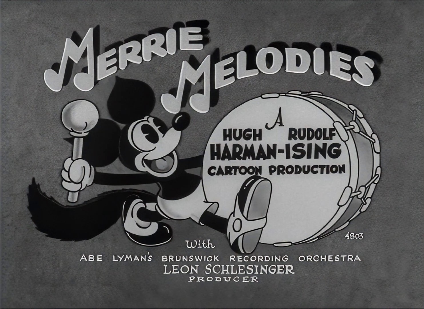 Title card of the first Merrie Melodies short, "Lady, Play Your Mandolin!", produced in 1931 by Leon Schlesinger Productions for Warner Brothers.